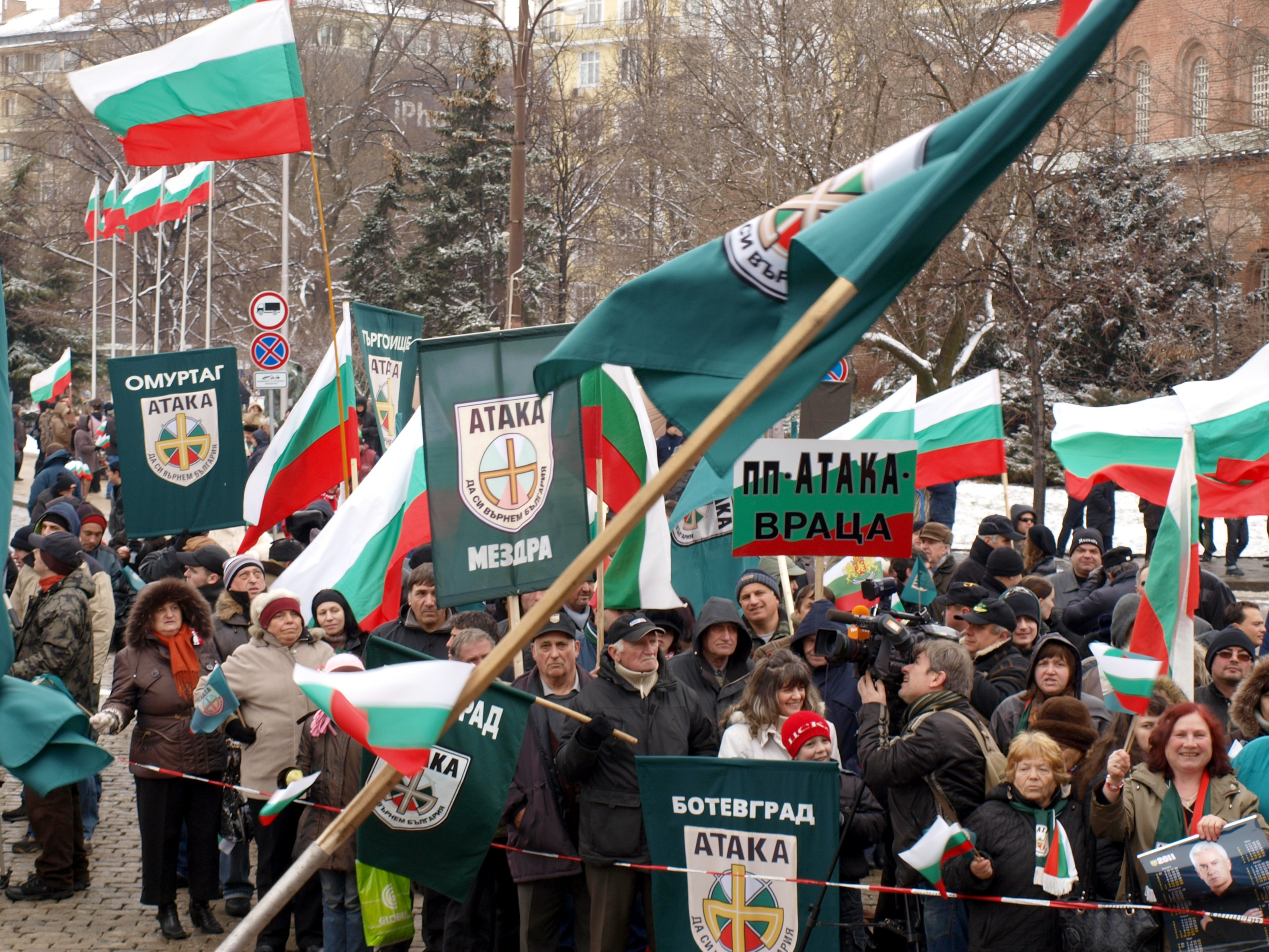 Meeting of political party ATAKA at Alexander Nevsky Square in Sofia, Bulgaria, at 3 March 2011.